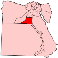 Map of Egypt showing Al Minya (Minya) governorate. Made by User:Golbez based on PD maps.